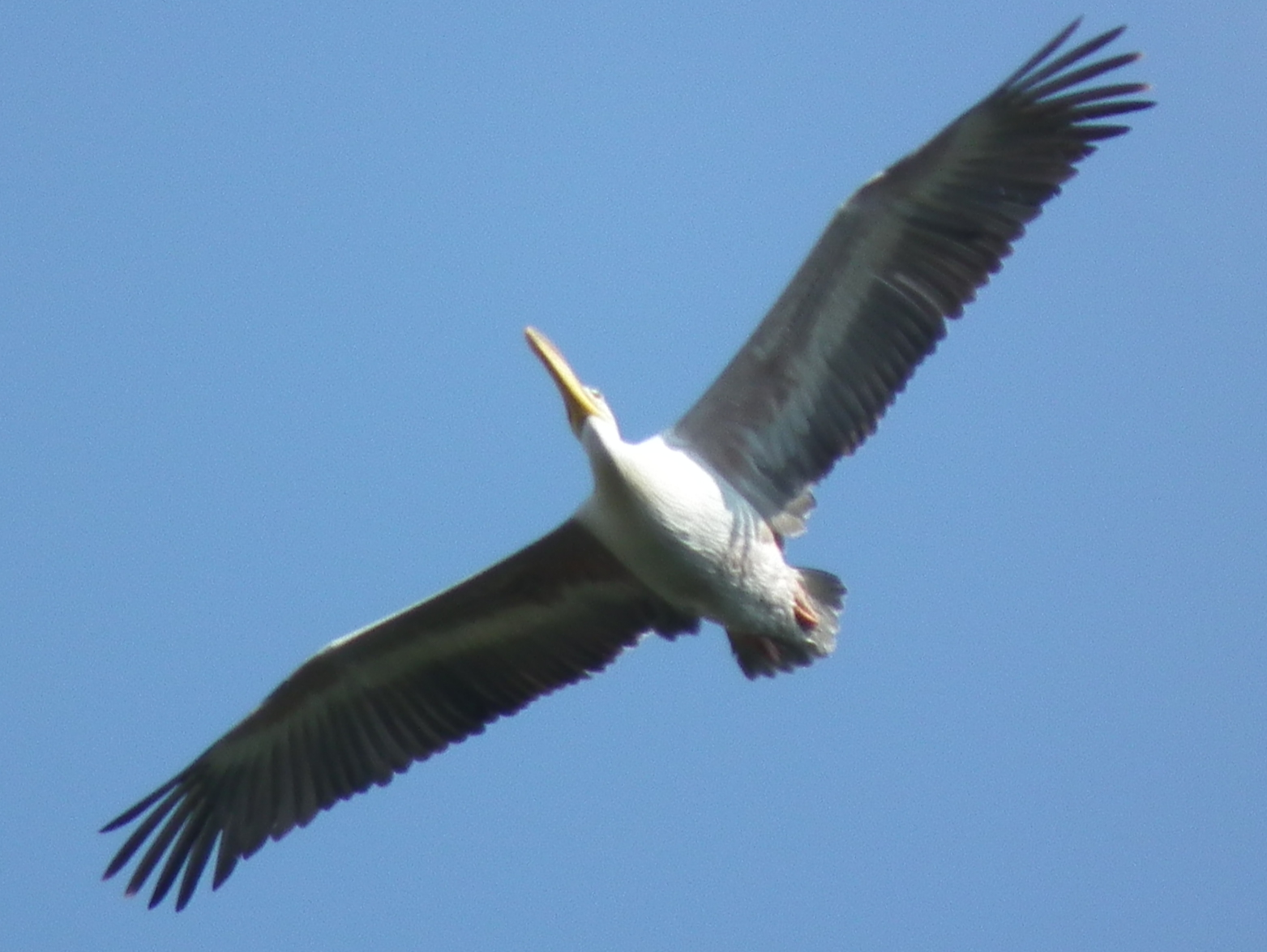 Pink-backed Pelican (Pelecanus rufescens) in flight, picture taken in Tanzania